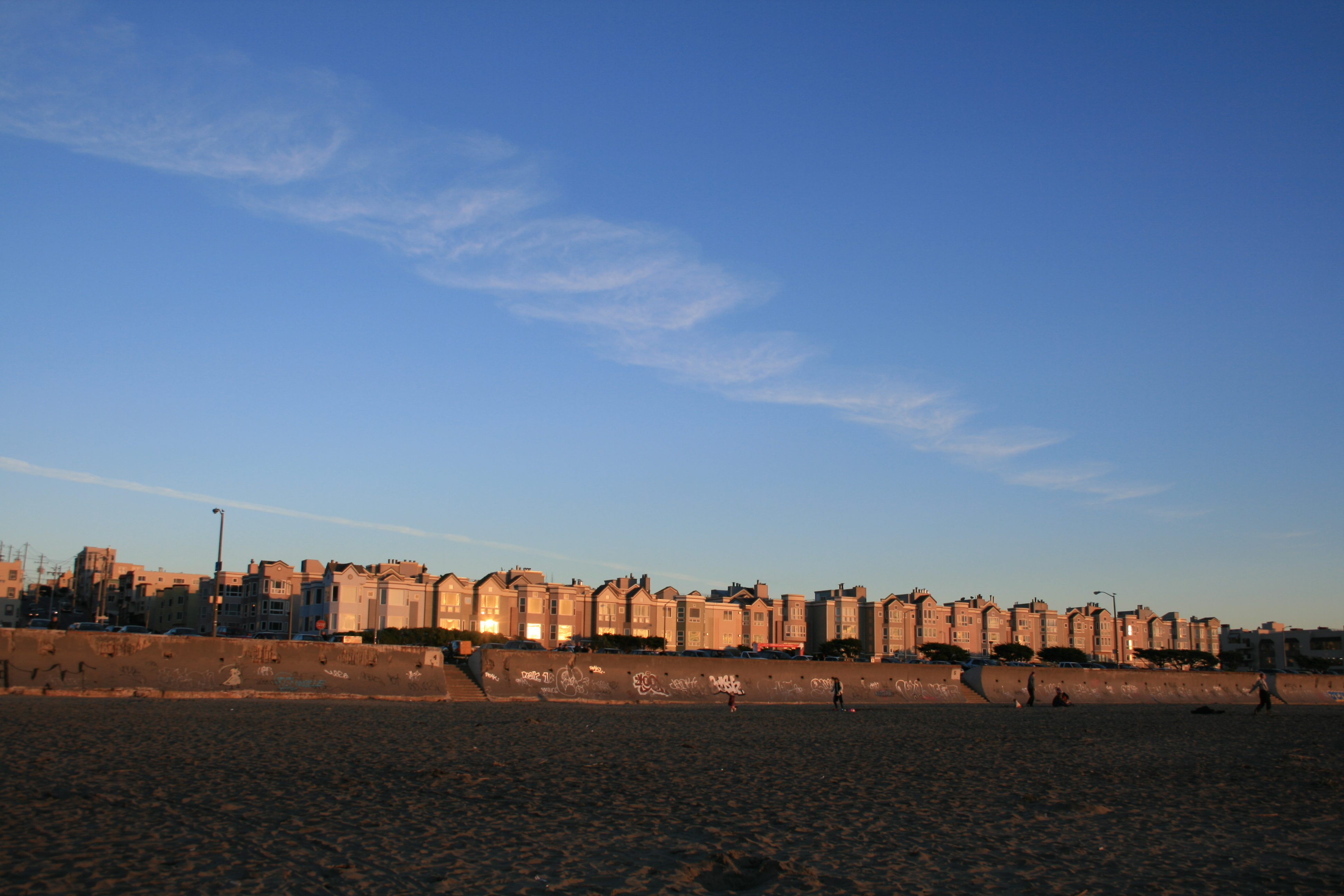 This Contrail inSan Francisco, California is a sample of Crow Instability.Crow instability is an inviscid line-vortex instability, named after its discoverer S. C. Crow. It is observed when the vortices caused by aircraft are being whirled from being otherwise straight contrails into spirals then donut-shaped rings.